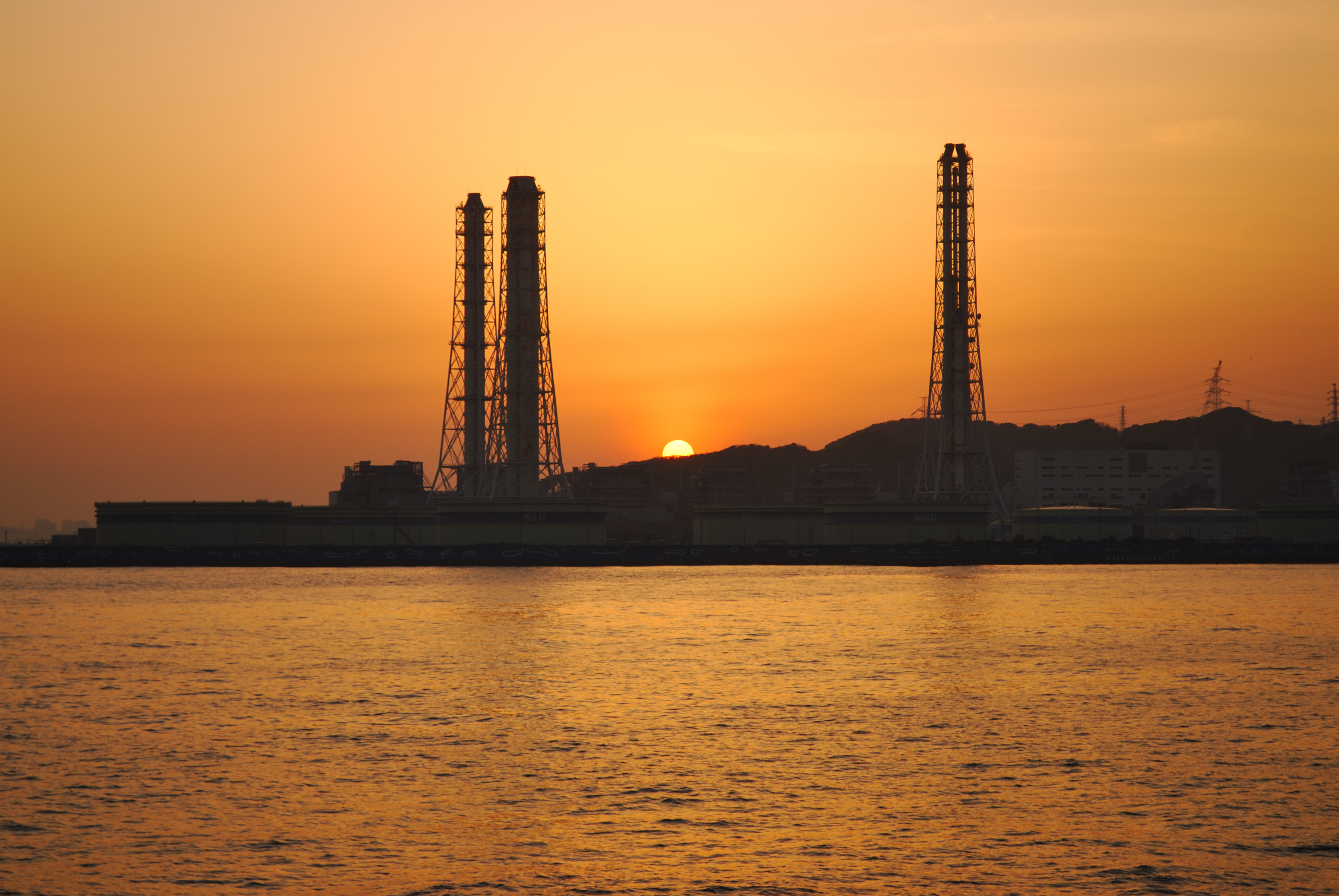 kurihama port from ferry.